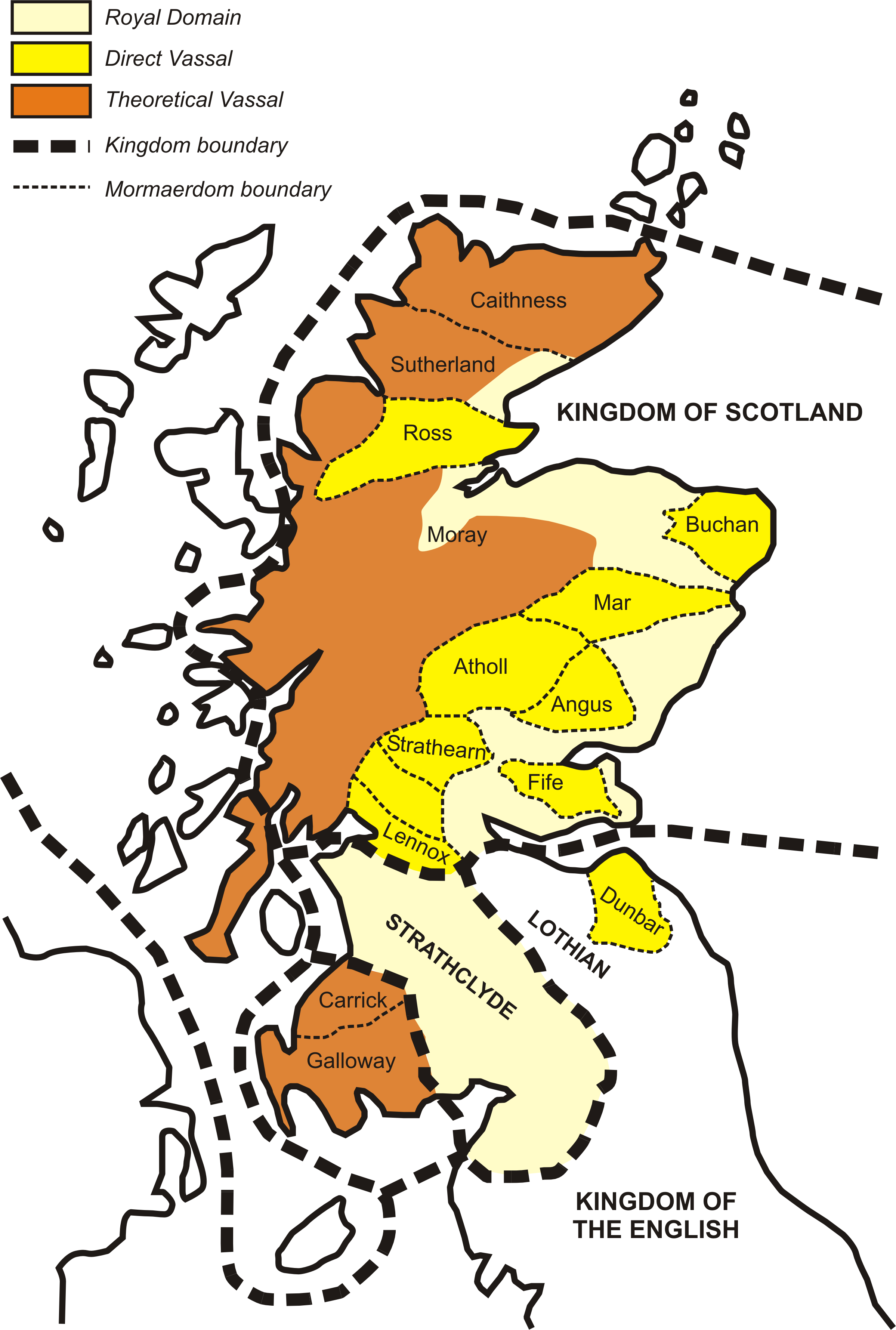 Own work, based on existing File:KingdomsandMormaers.PNG, which itself is based on the boundaries in Steven Driscoll, Kingdom of Alba and John L. Roberts, Lost Kingdoms p. 47. New version as .png as .svg didnt work properly